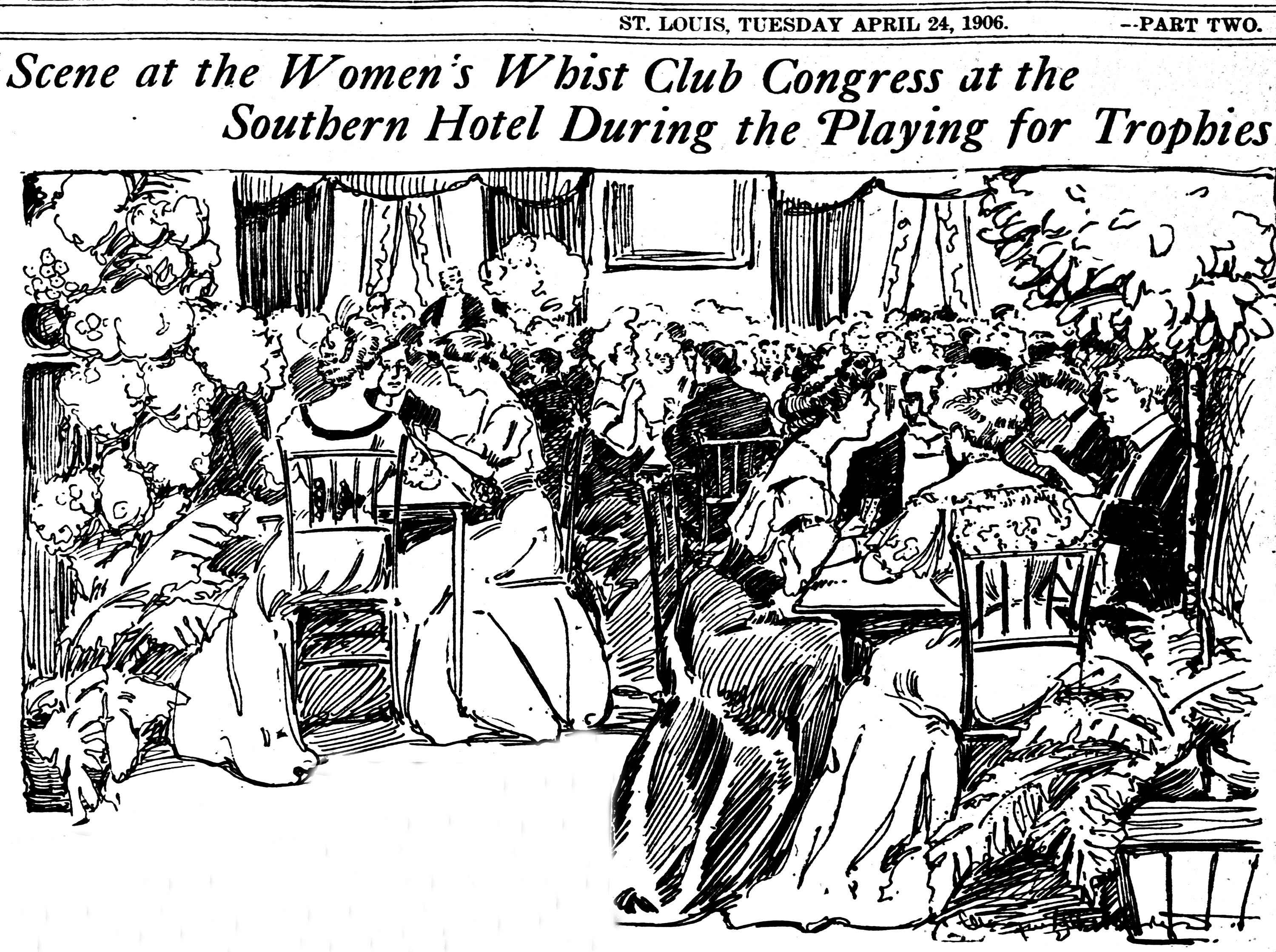 Drawing by Marguerite Martyn of Women's Whist Club Congress, April 1906, at the Southern Hotel, St. Louis.jpg